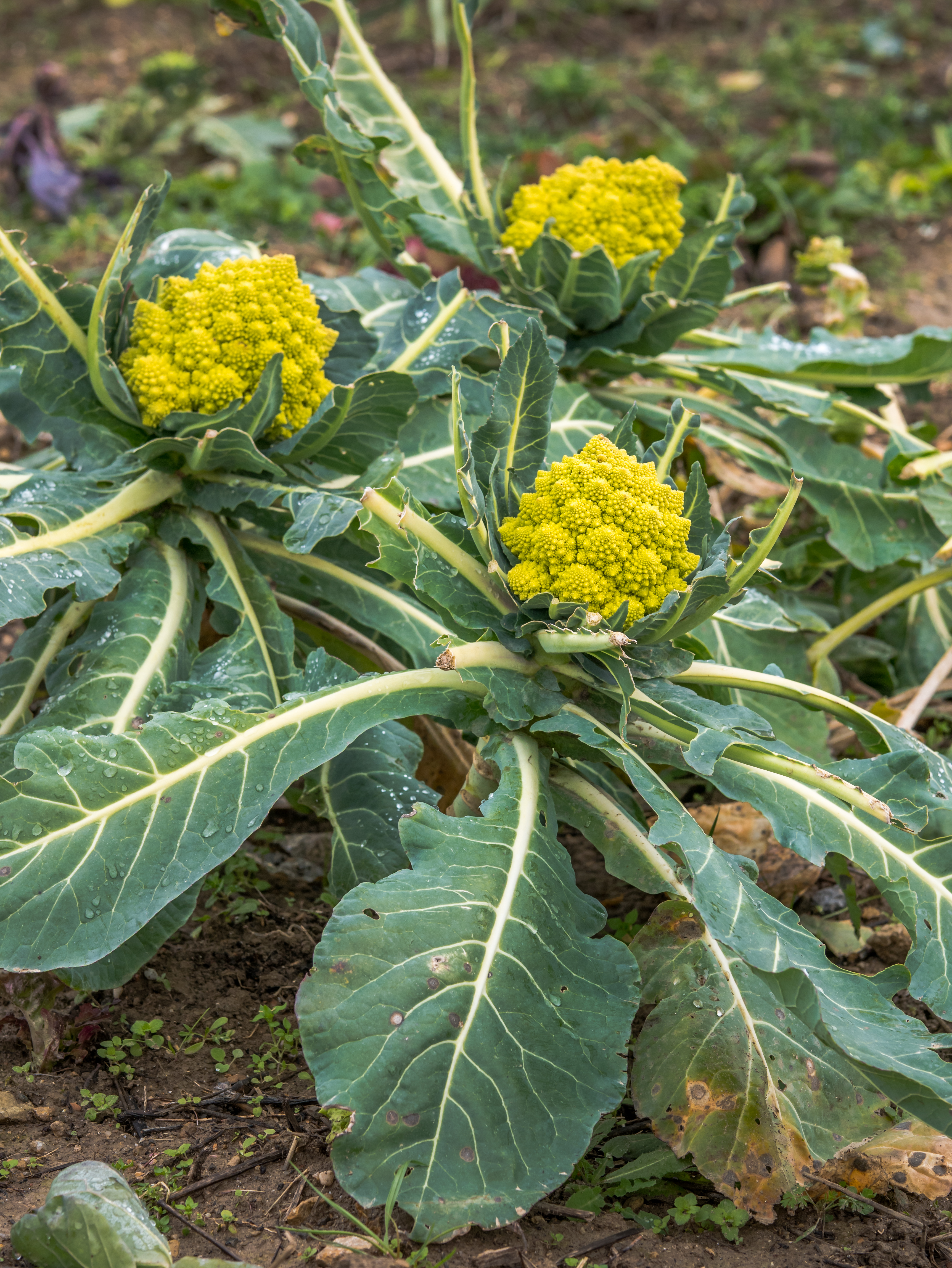 Romanesco broccoli at the Olarizu Allotments. Vitoria-Gasteiz, Basque Country, Spain